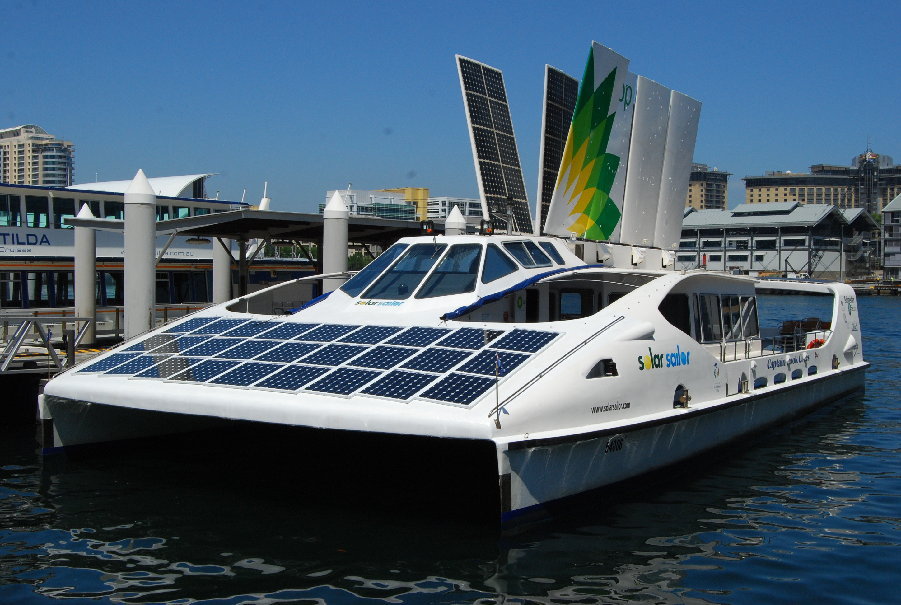 paved with solar photovoltaics